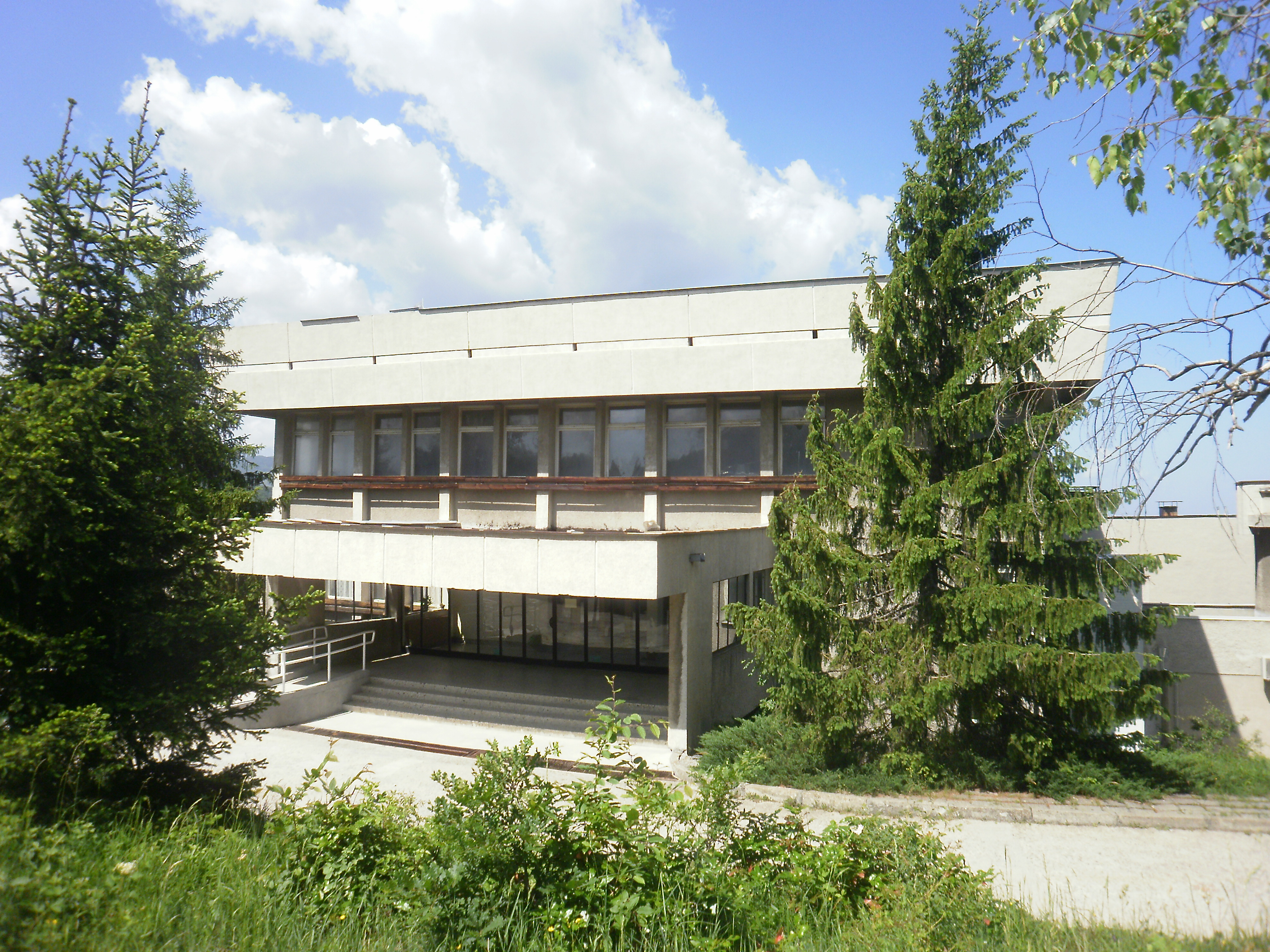 Planetarium with astronomical observatory, Gabrovo